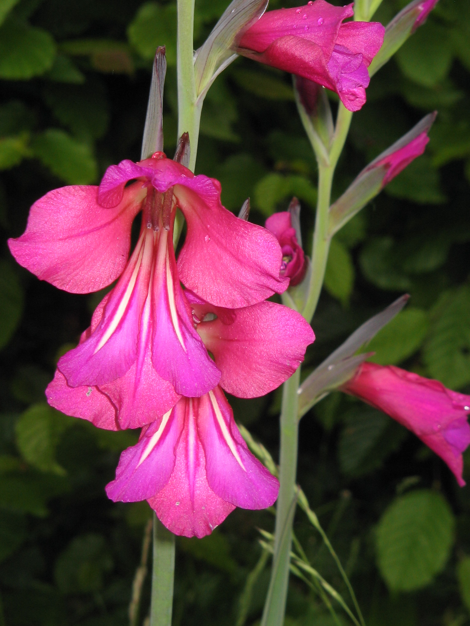 Gladiolus communis subsp. byzantinus - close-up